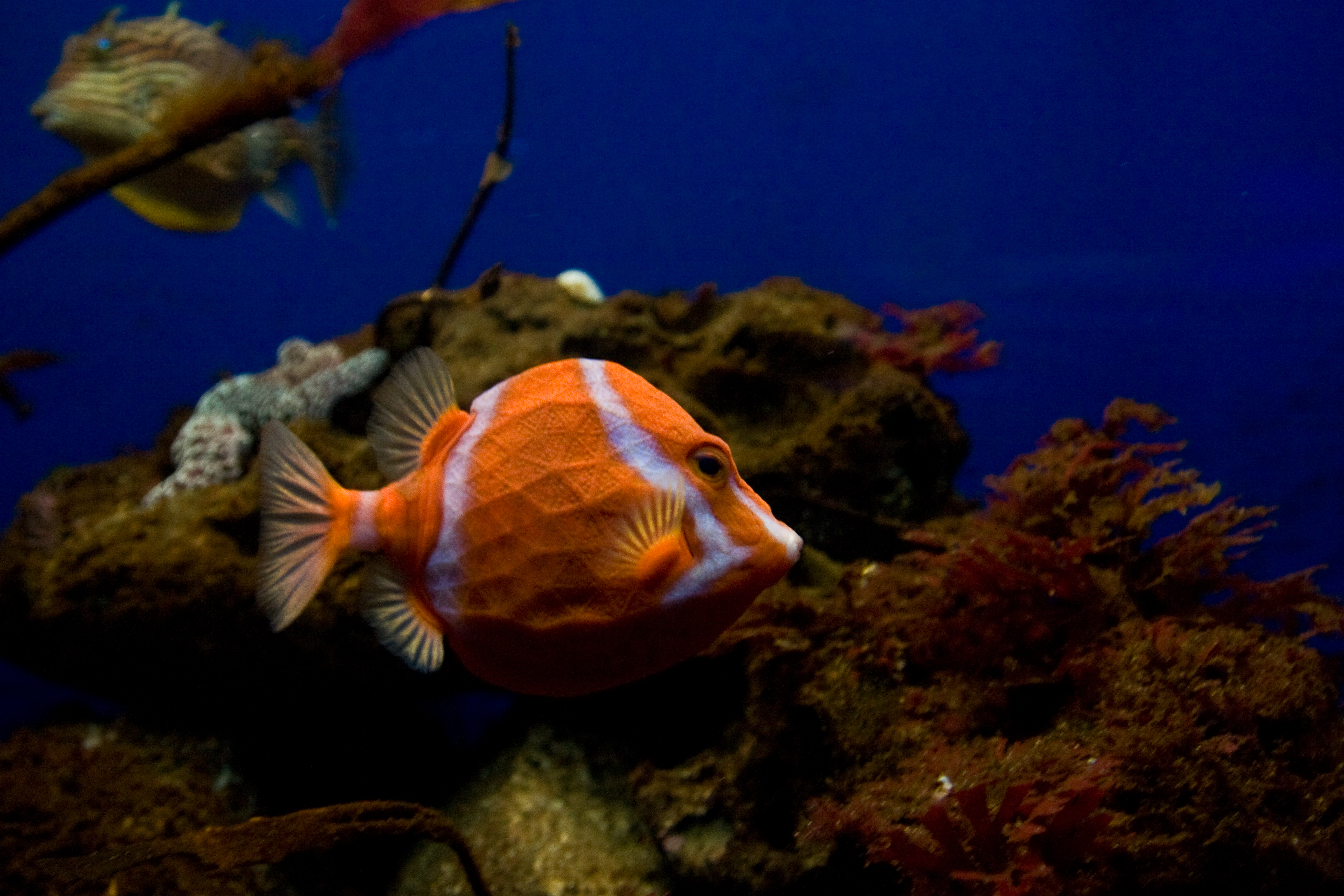 Anoplocapros lenticularis. This fish has an interesting hexagonal pattern of ridges on its side.